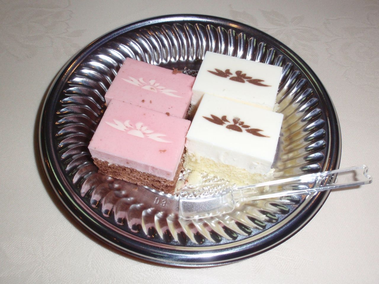 Sunflower Original Cake